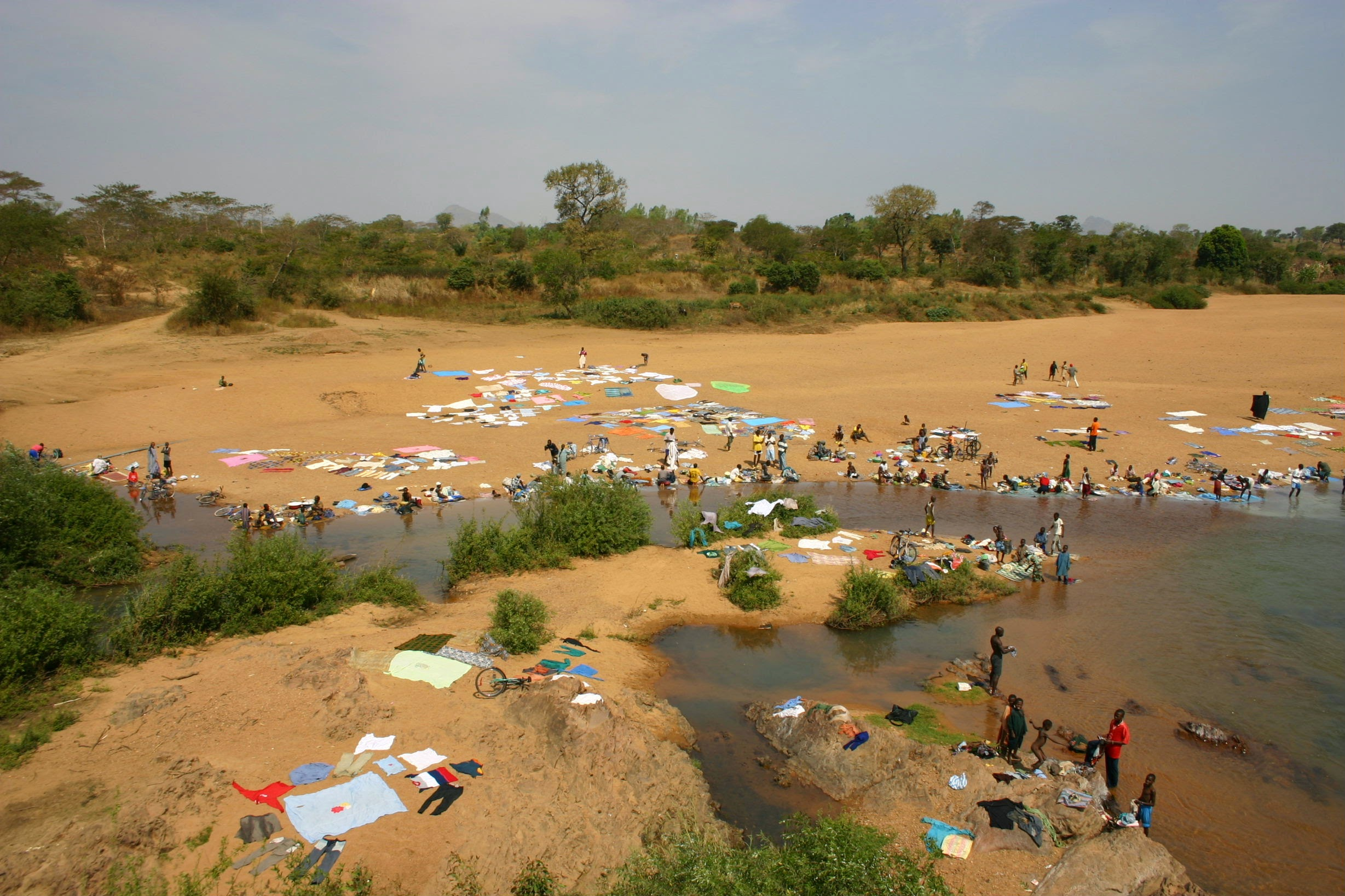 Cameroun 2014